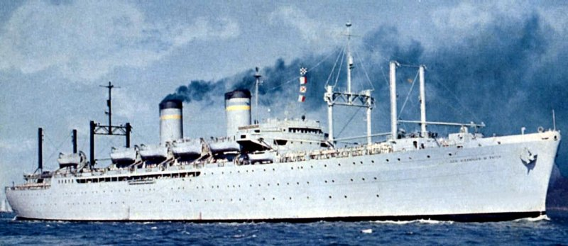 USNS General Alexander M. Patch (T-AP-122) underway, date and location unknown. US Navy photo